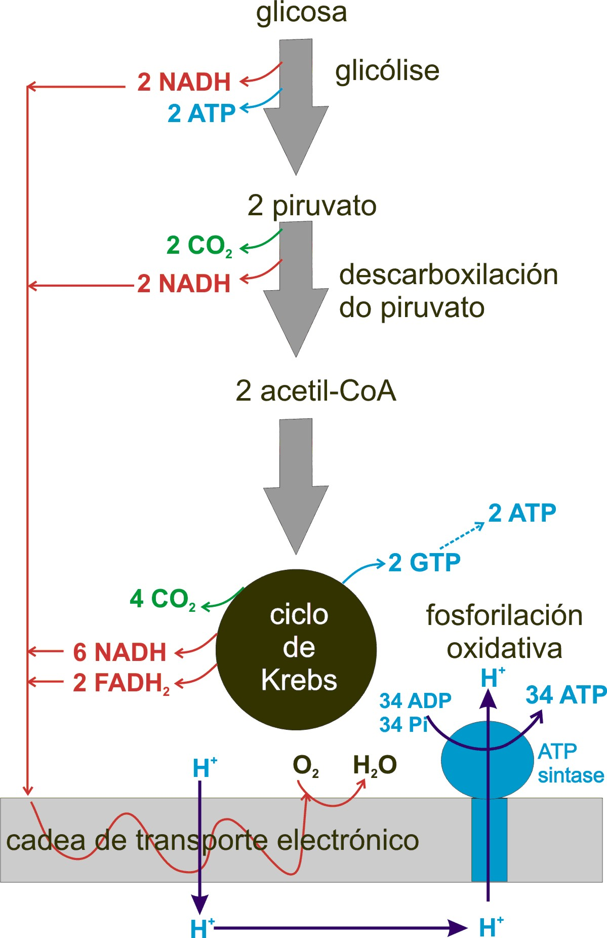 ATP production in aerobic respiration